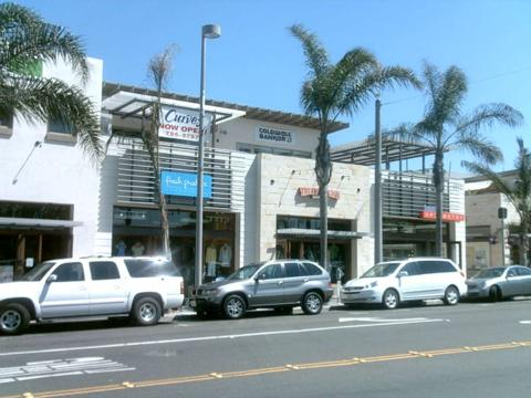 This is Manhattan Beach Boulevard in Manhattan Beach, CA